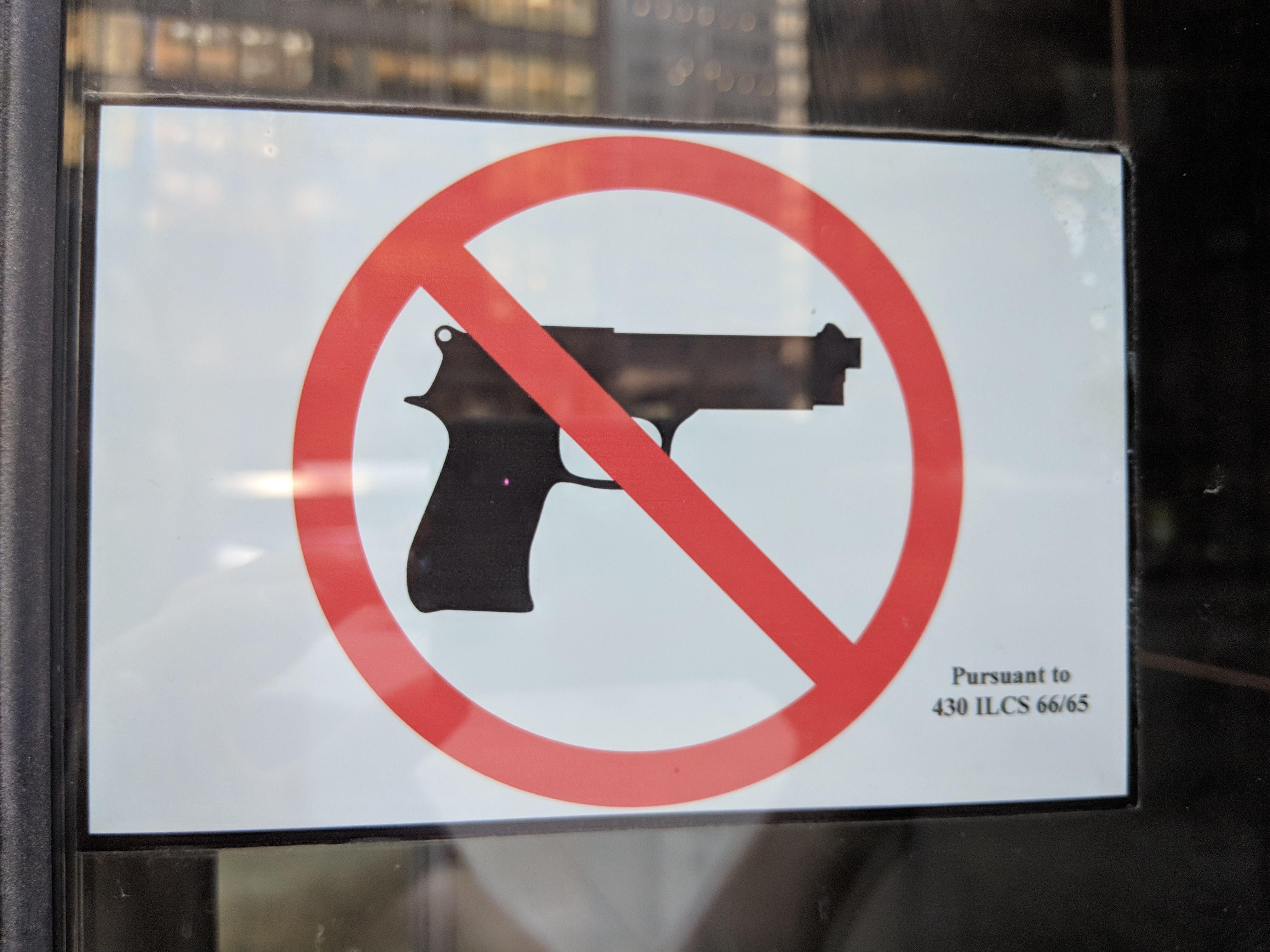 A sign on an entrance to a building in Chicago prohibiting possessing firearms within.